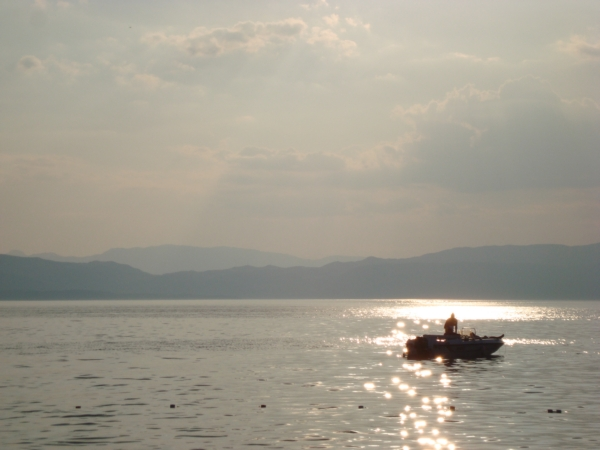 View of Lake Ohrid, taken from the beach in front of Hotel Metropol, Republic of Macedonia